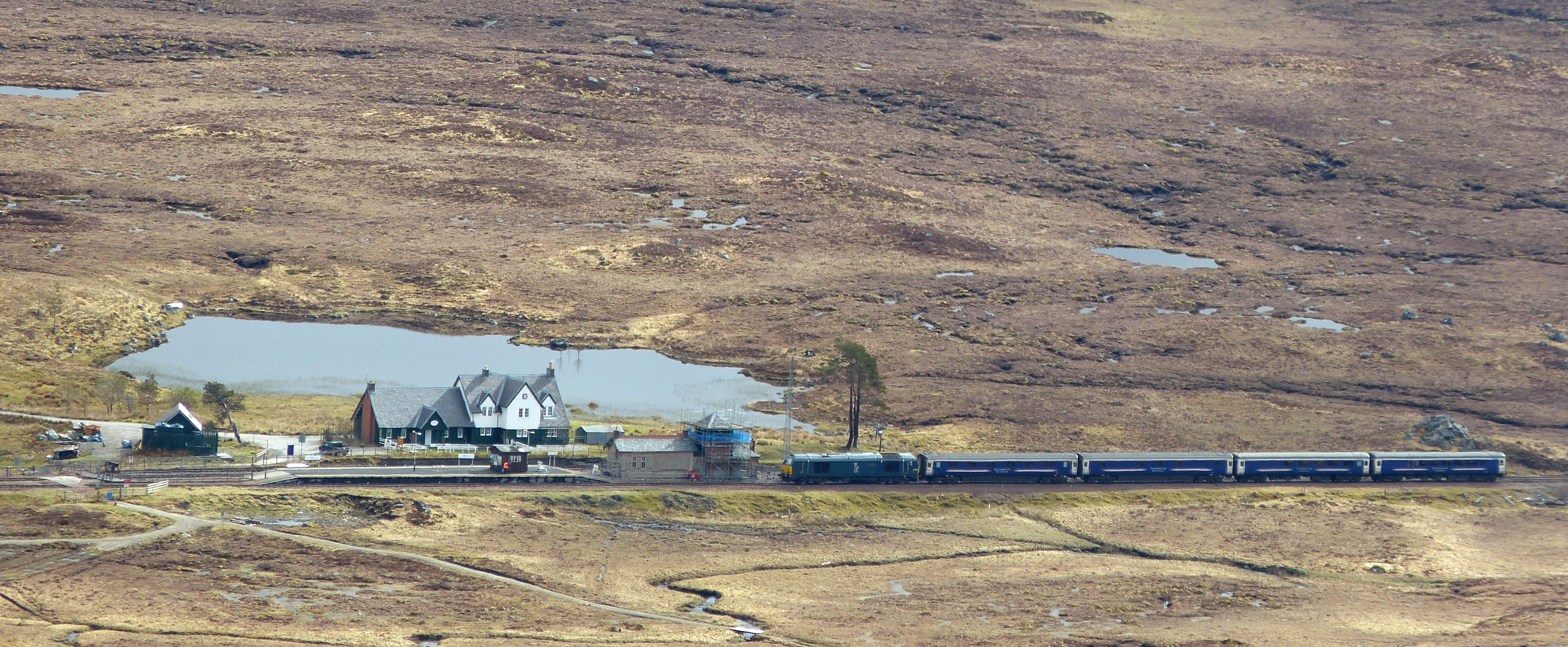 Running a little late as the service passed through the highest mainline railway station in the UK.